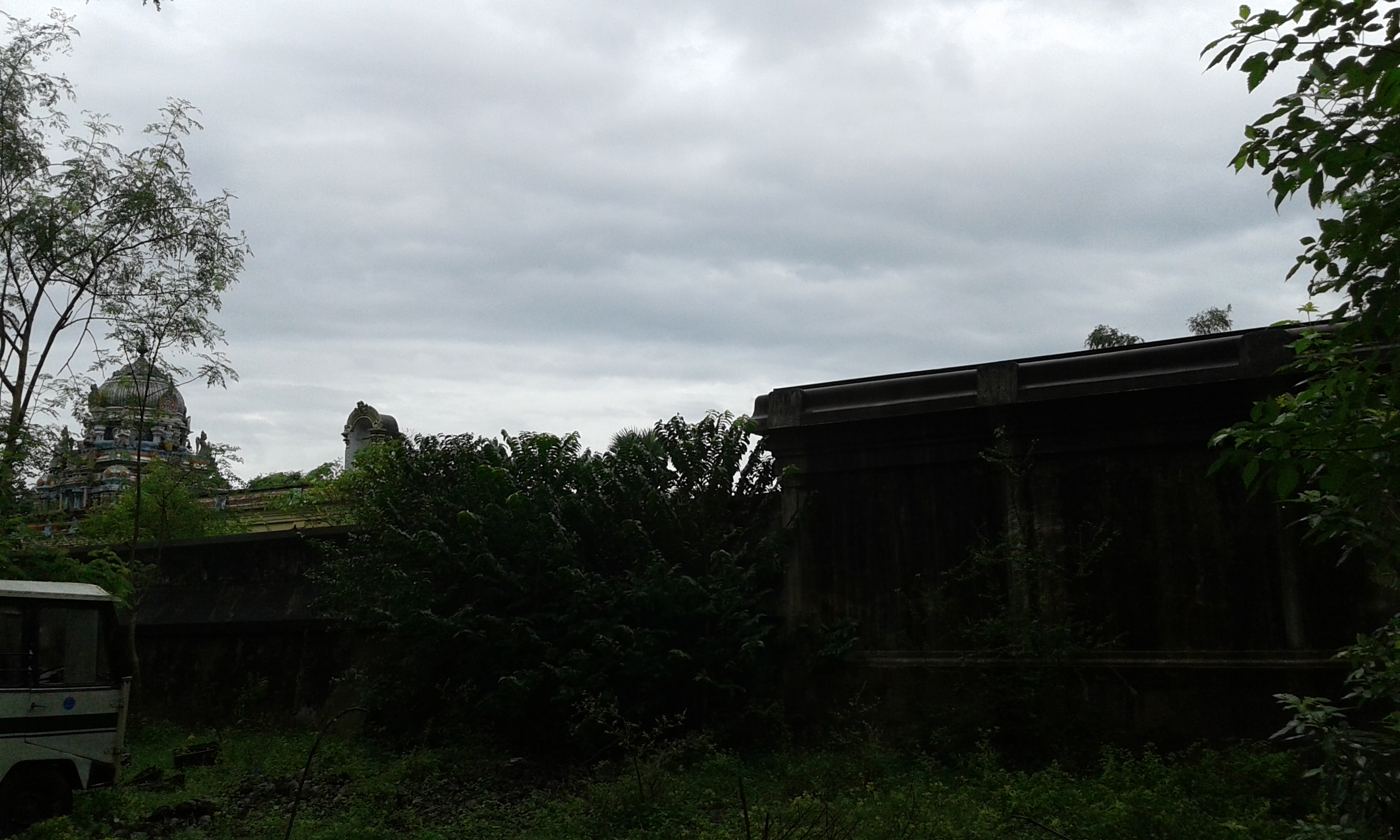 Thirumanikkoodam